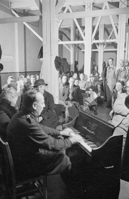 Shelter Photographs Taken in London by Bill Brandt, November 1940 An ARP warden plays the piano during a sing-a-long in an air raid shelter situated 'under a religious institution'. In the background of the photograph can be seen Reverend Mackay, who visits the shelter every evening and holds short services.